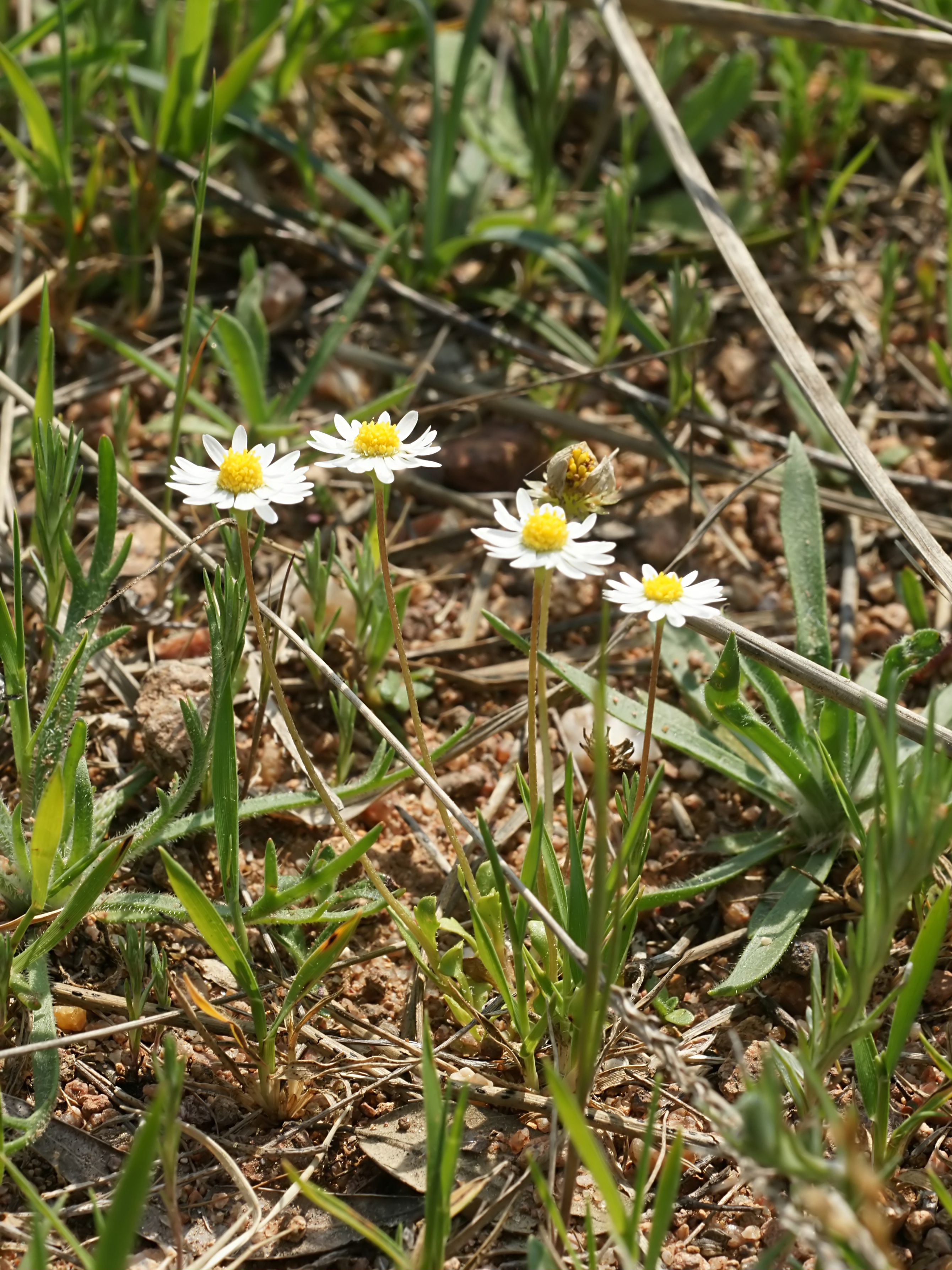 Annual Daisy at Bois du Rouquan, Var, France